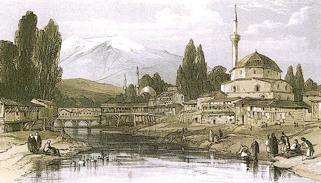 Historic view of Bitola (today Republic of Macedonia) in 19th century. Watercolor.